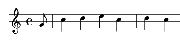 //cropped from lilypond code below (theme doubled so it didn't stretch horizontally, then cropped with "Paint" \version "2.11.63" (set-global-staff-size 20) \score { \new Staff { \relative c { \clef treble \key c \major \time 4/4 \partial2 \partial4 \partial8 g8 c4 d e c d c r4 r8 g8 c4 d e c d c } } } \layout { }